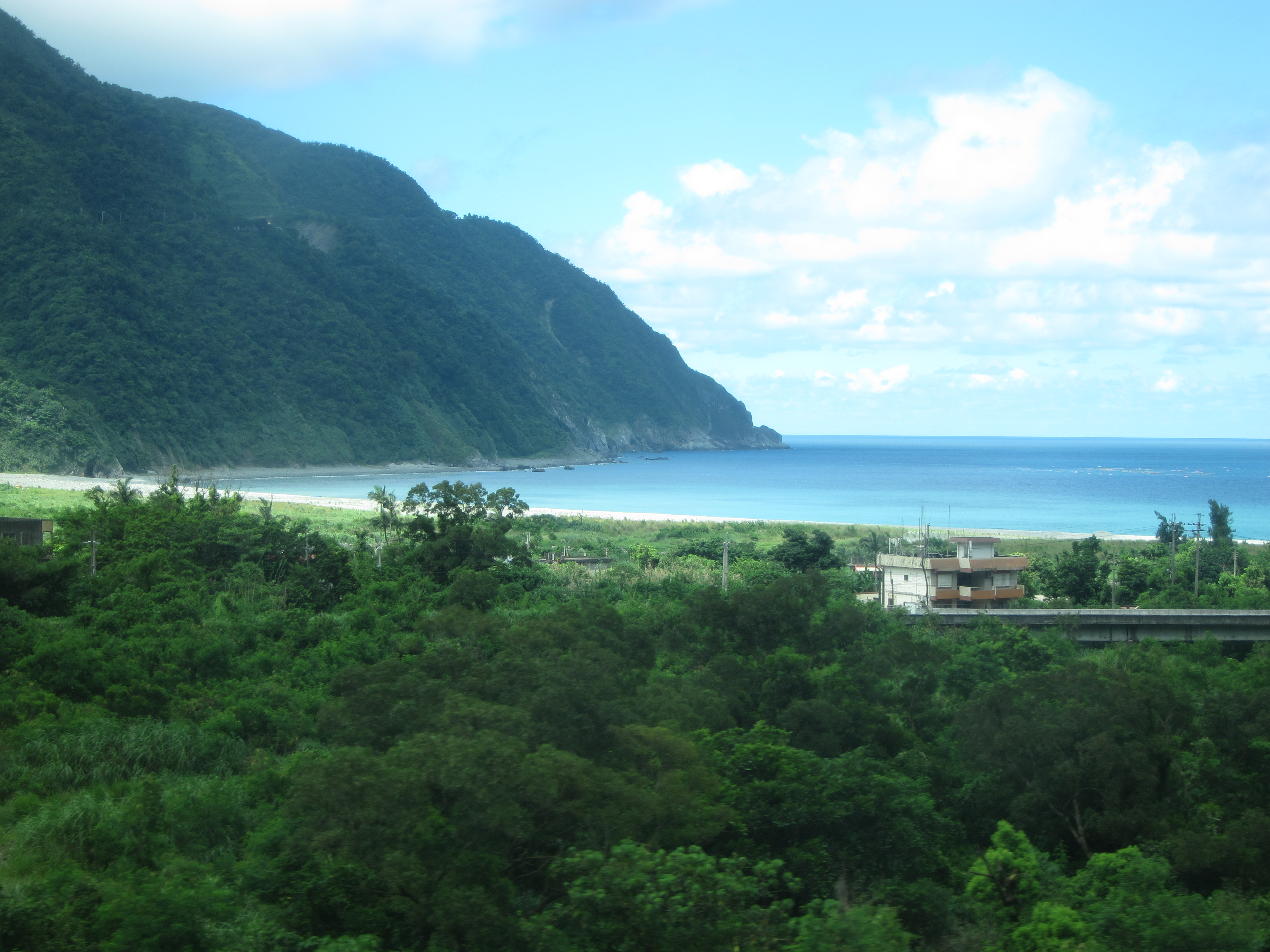 Coast near Su’ao in Yilan County, Taiwan.